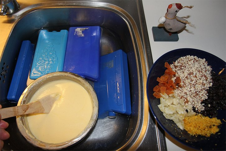 Cooling of classical pasha (paskha) during the preparation. At this phase there are butter, sugar, egg, quark, cream and vanilla in the pot. When pasha mass is cooled enough, the mass starts to thicken clearly. At this point the dry ingredients (right) are added/mixed in. Note: the link to the legal code of license was not not working so it so I cannot be sure it is correct; I accept only use/ license where attribution to the original contributor shall be kept if file is used later.